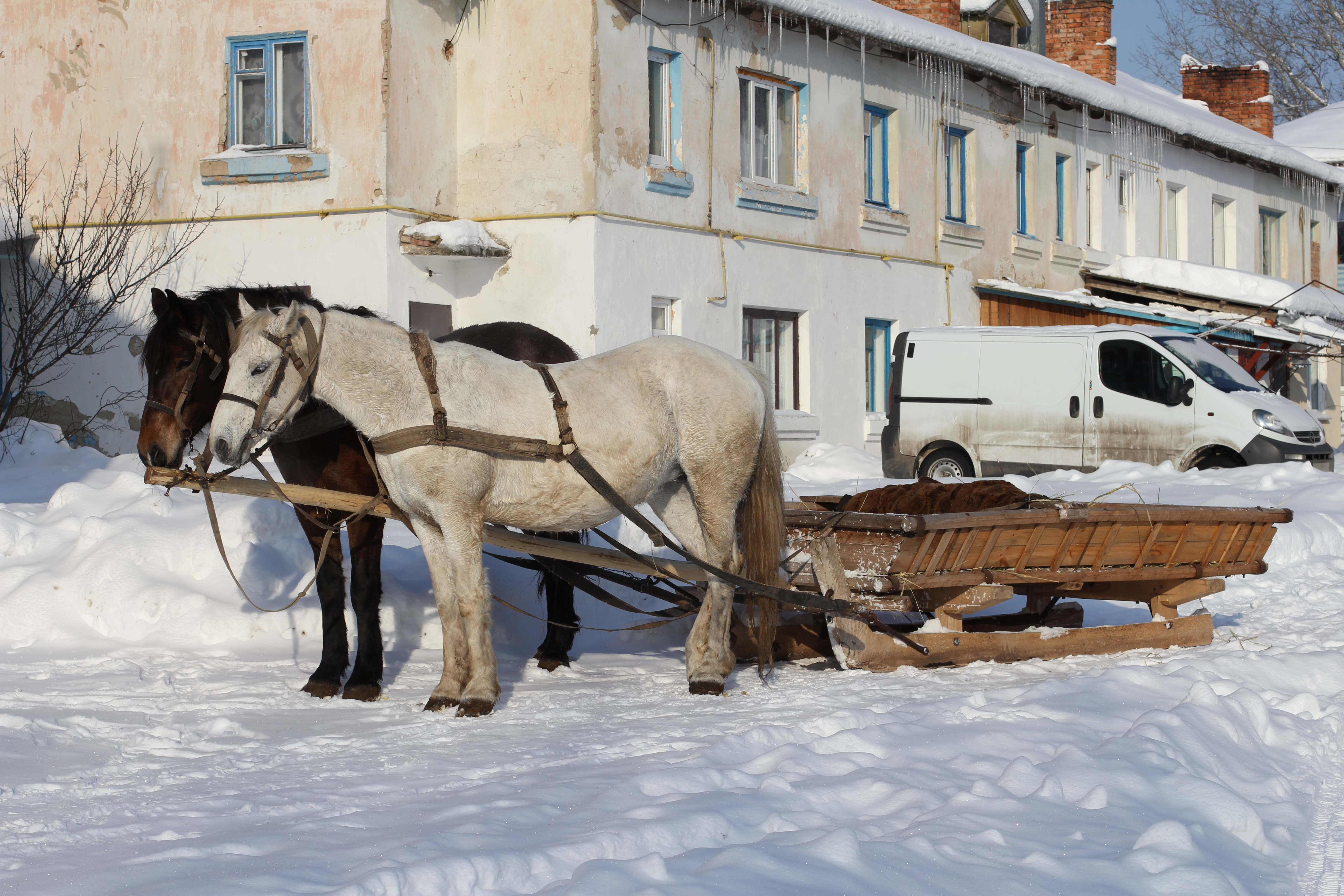 Horse-drawn sleighs in settlement Slavne near Vinnytsia, Ukraine.